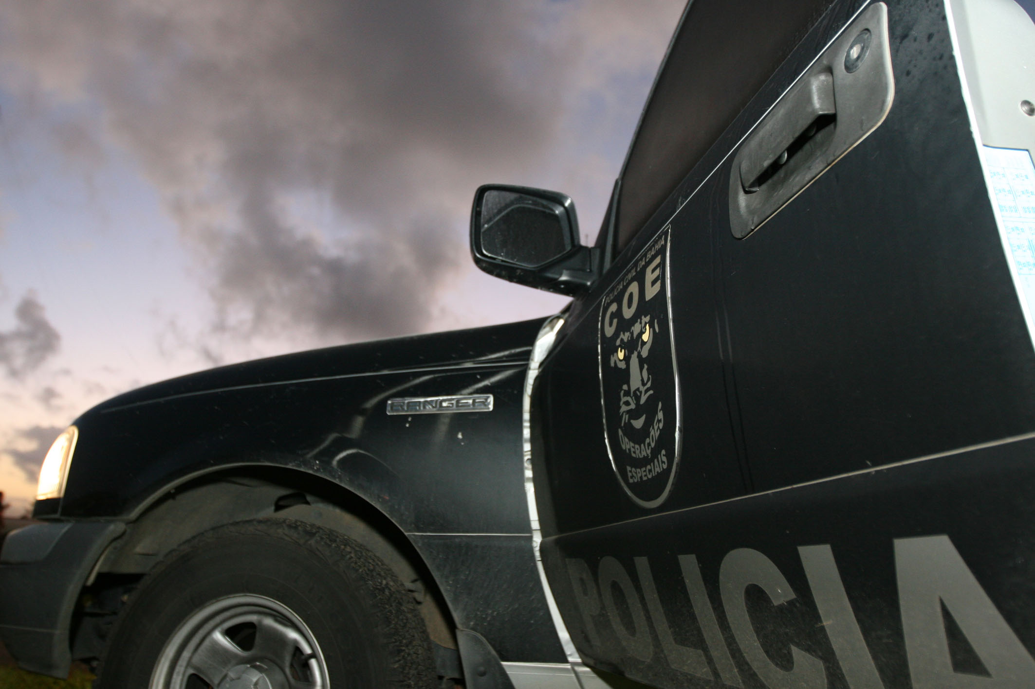 Police car of Bahia - Brazil